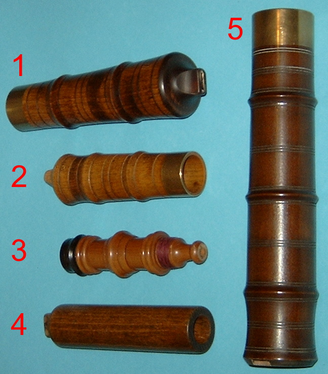 windcaps: 1 soprano rauschpfeiff, 2 alto crumhorn, 3 Hümmelchen ("German small bagpipe", chanter), 4 soprano shawm (uncommon for this instrument), 5 bass crumhorn